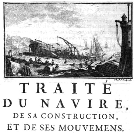 Label engraved by Chedel for Traité du navire from Pierre Bouguer. Left it shows a lines plan